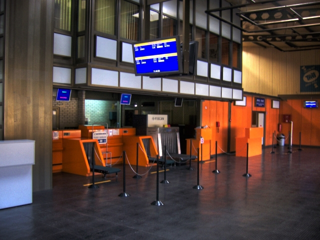 Niš Constantine the Great Airport - Terminal - Image originally by User:Alxadj; re-uploaded to Commons under the same name and license.